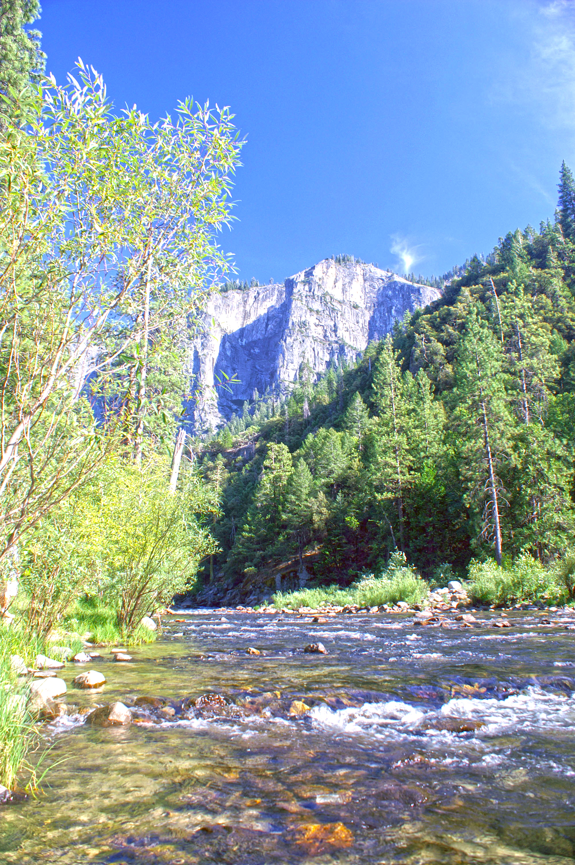 Merced River in Yosemite Valley